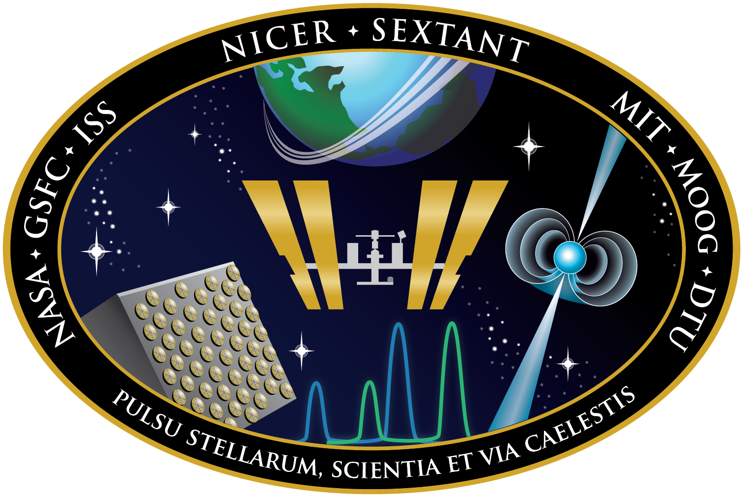 Insignia for NICER / SEXTANT Motto: PULSU STELLARUM, SCIENTIA ET VIA CAELESTIS